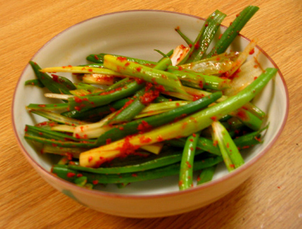 Pajeori (파절이), a variety of saengchae, or Korean salad, made with scallions, red chili pepper powder, and salt.